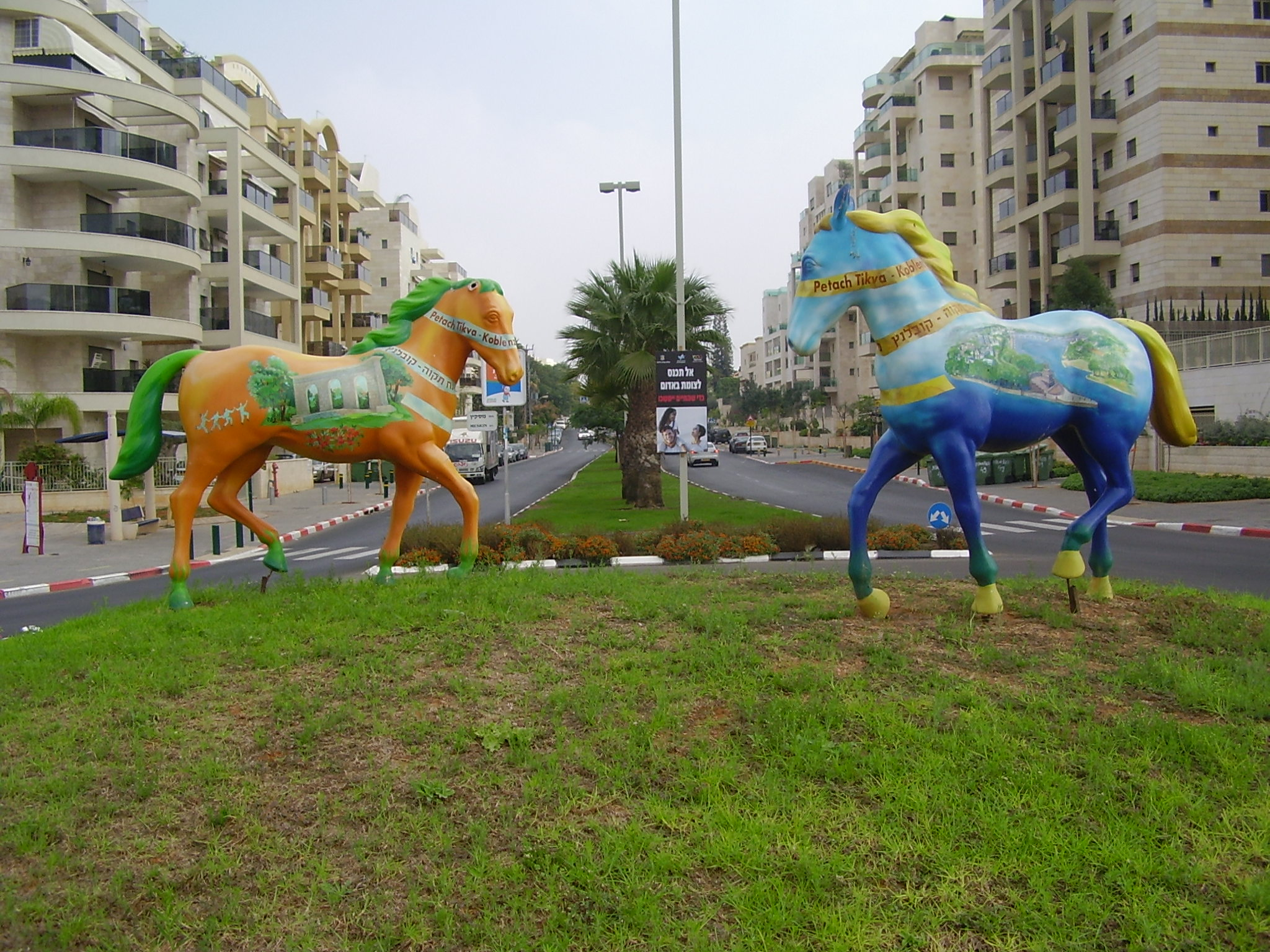 koblenz square in petakh tikva